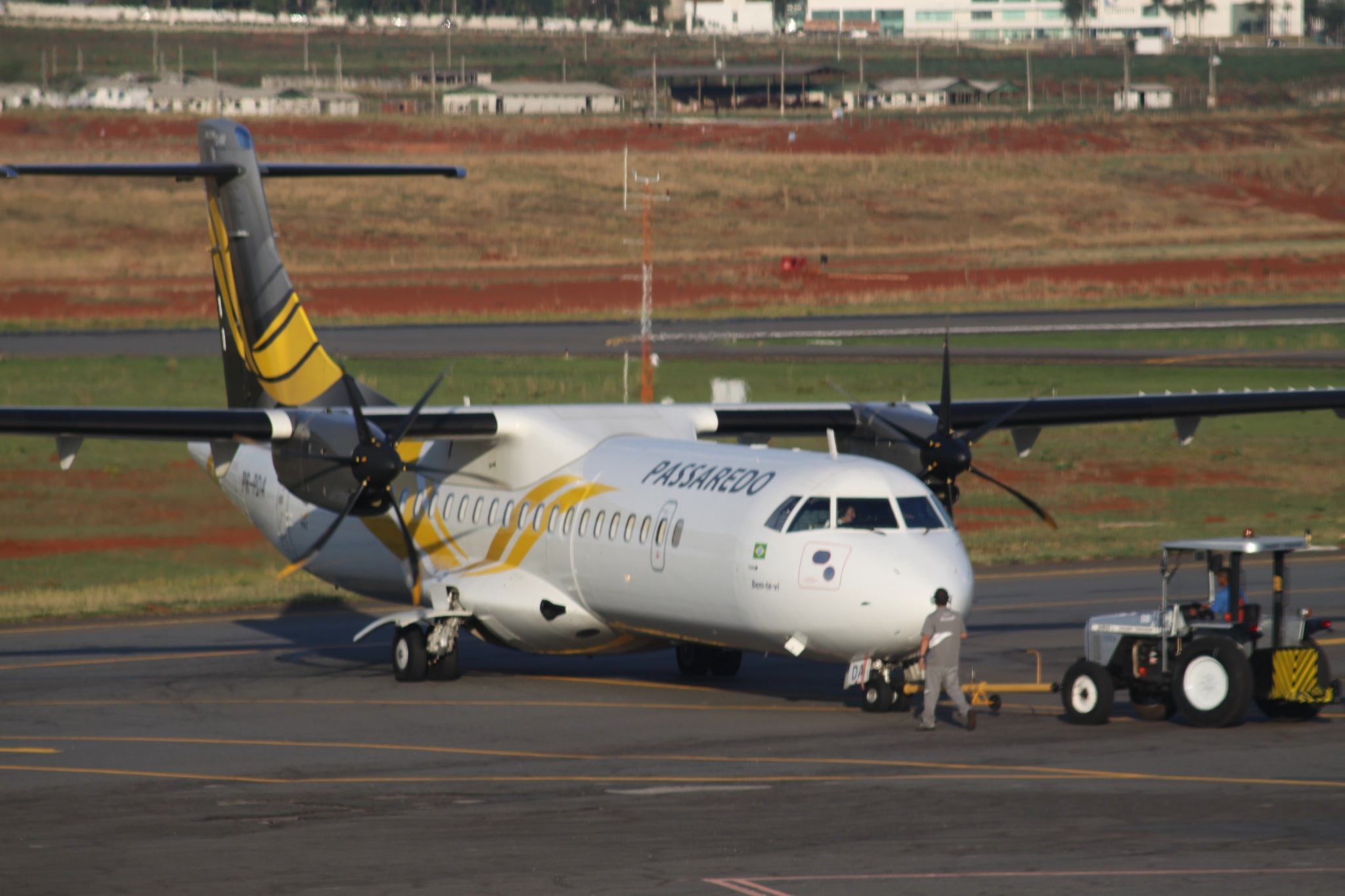 At Goiania Airport